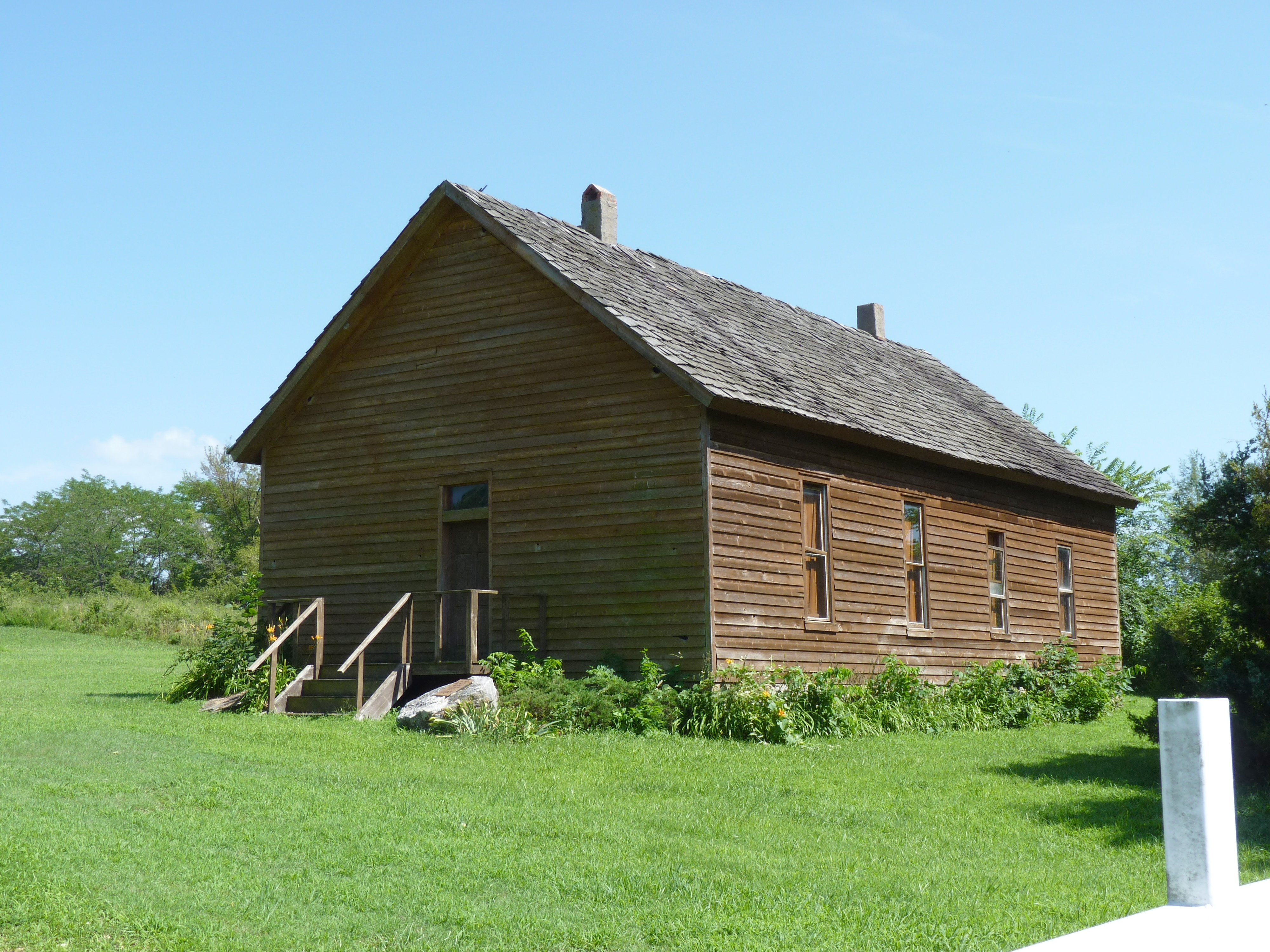 Photo of the old Modoc Mission Church, adjacent to the Modoc Cemetery.